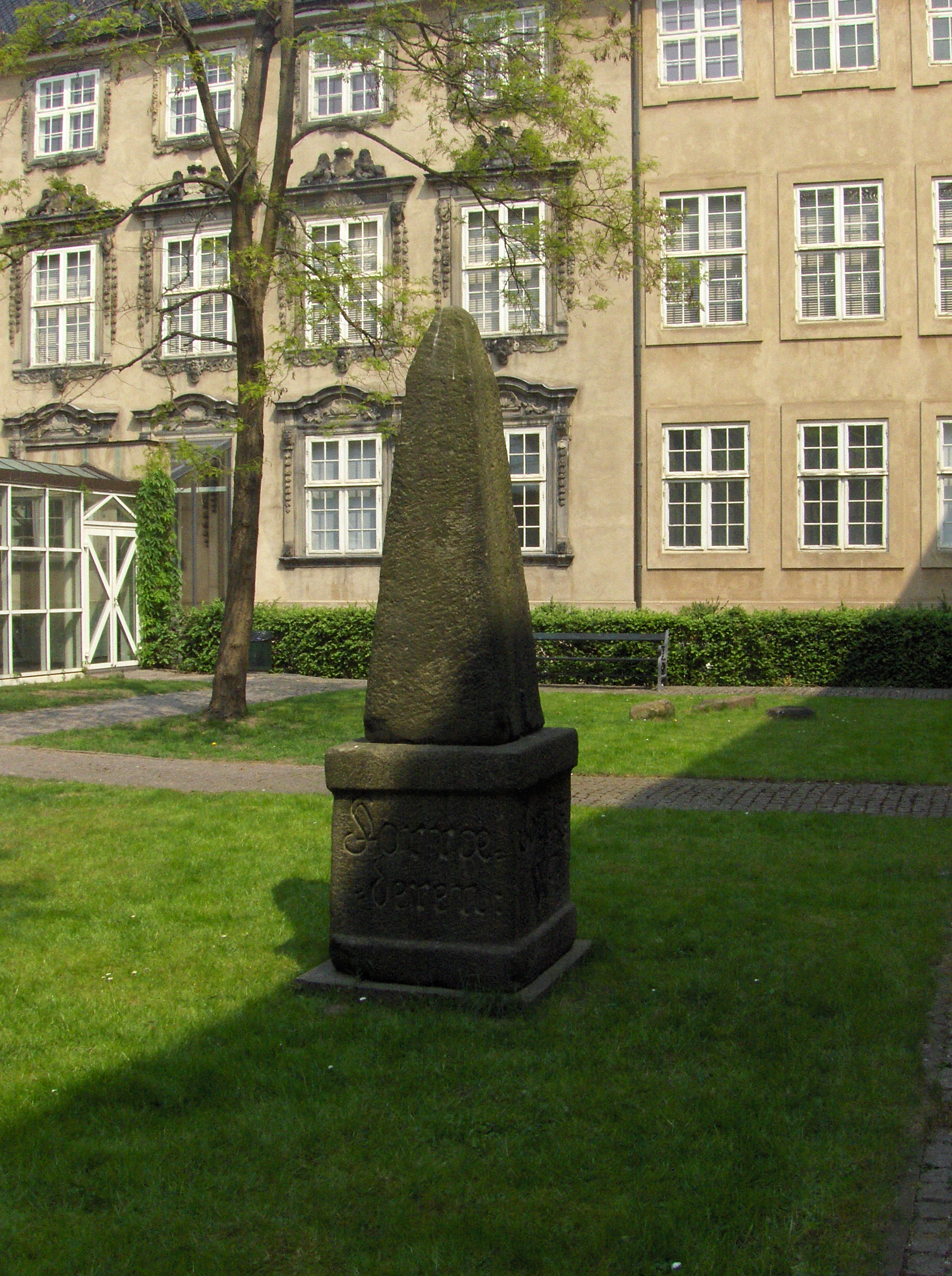 This image was provided to Wikimedia Commons by Nationalmuseet as part of an ongoing cooperative project. The artifact represented in the image is part of the collection of Nationalmuseet. English | +/−